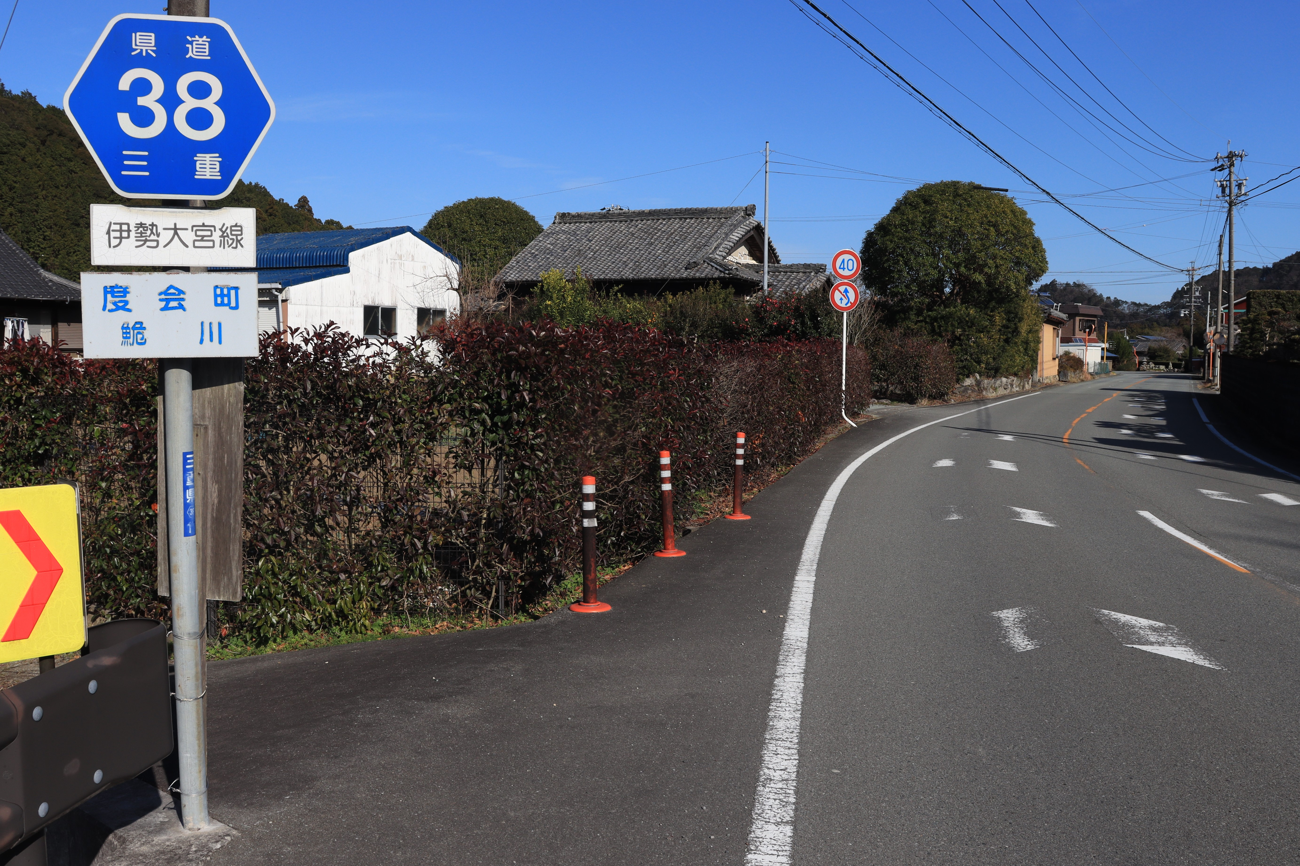 Mie Prefectural Road Route 38 in Haikawa, Watarai, Mie Prefecture, Japan.